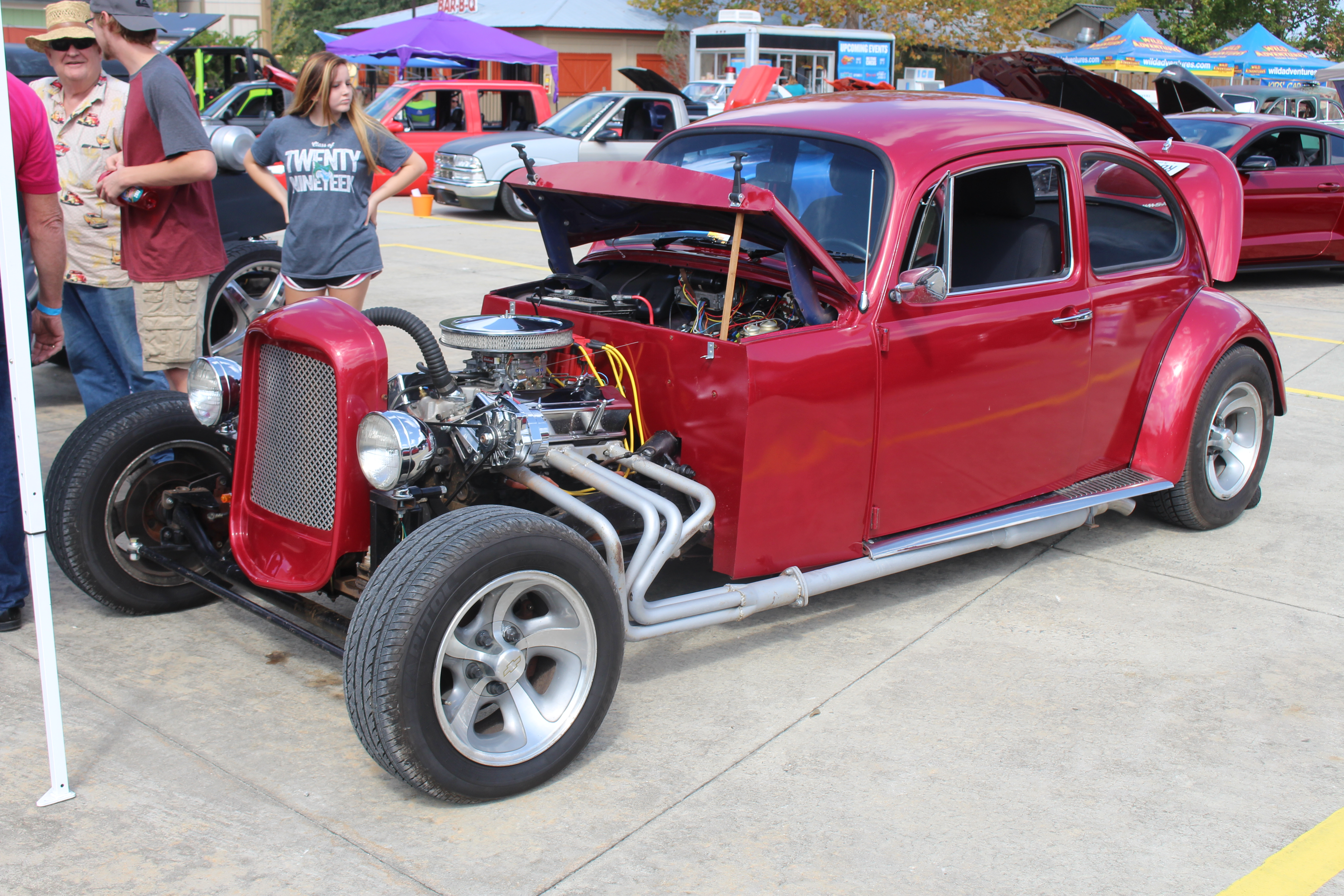 Wild Adventures Coasters & Cars Car Show, Wild Adventures, Lowndes County, Georgia